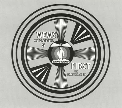 WEWS' familiar test pattern, featuring the disclaimer First in Cleveland.